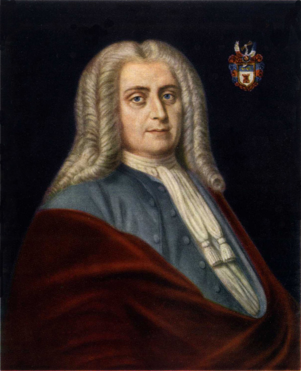 Oil painting of Johan Jacob Döbelius from the end of the 19th Century, from an original portrait dating from 1707.